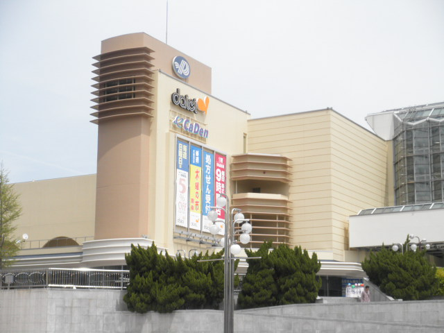 Daiei Seishin chuo store